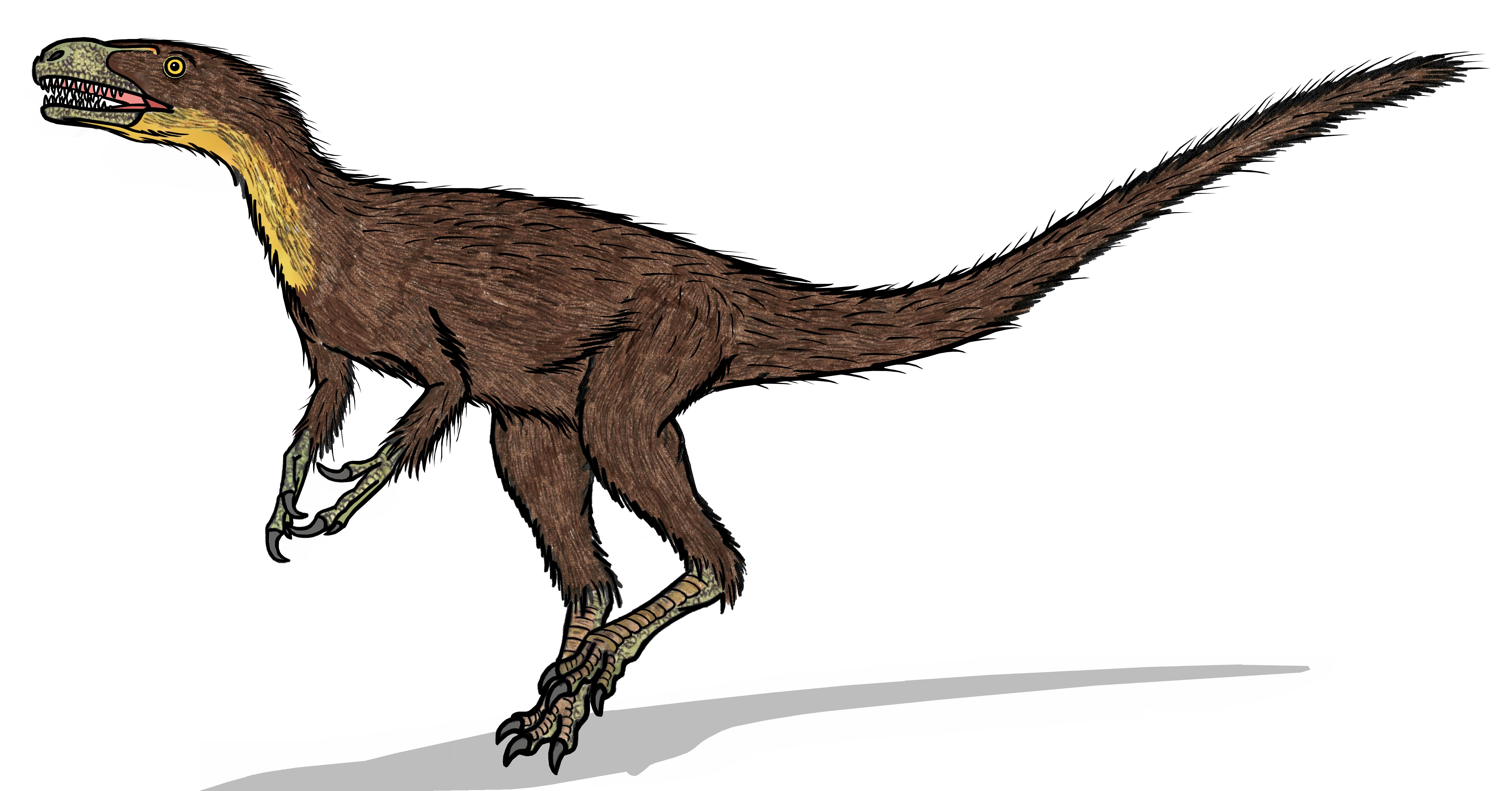 Reconstruction of the small theropod dinosaur Dilong paradoxus, with a suit of hair-like feathers. Dilong was a close relative to Tyrannosaurus rex, but was merely about 5.5 - 6 feet long, and had longer forelimbs with 3 digits. So far, Dilong is the only tyrannosauroid with evidence for feathers. Those feathers were not the type which most birds have, but they was like a kiwibirds: Simple, hollow filaments, more like the fur in mammals. The colorpattern is a guess, based on new research about Sinosauropteryx (another feathered dinosaur) possible colors ([1]). See skeleton of Dilong at [2], [3] and [4]